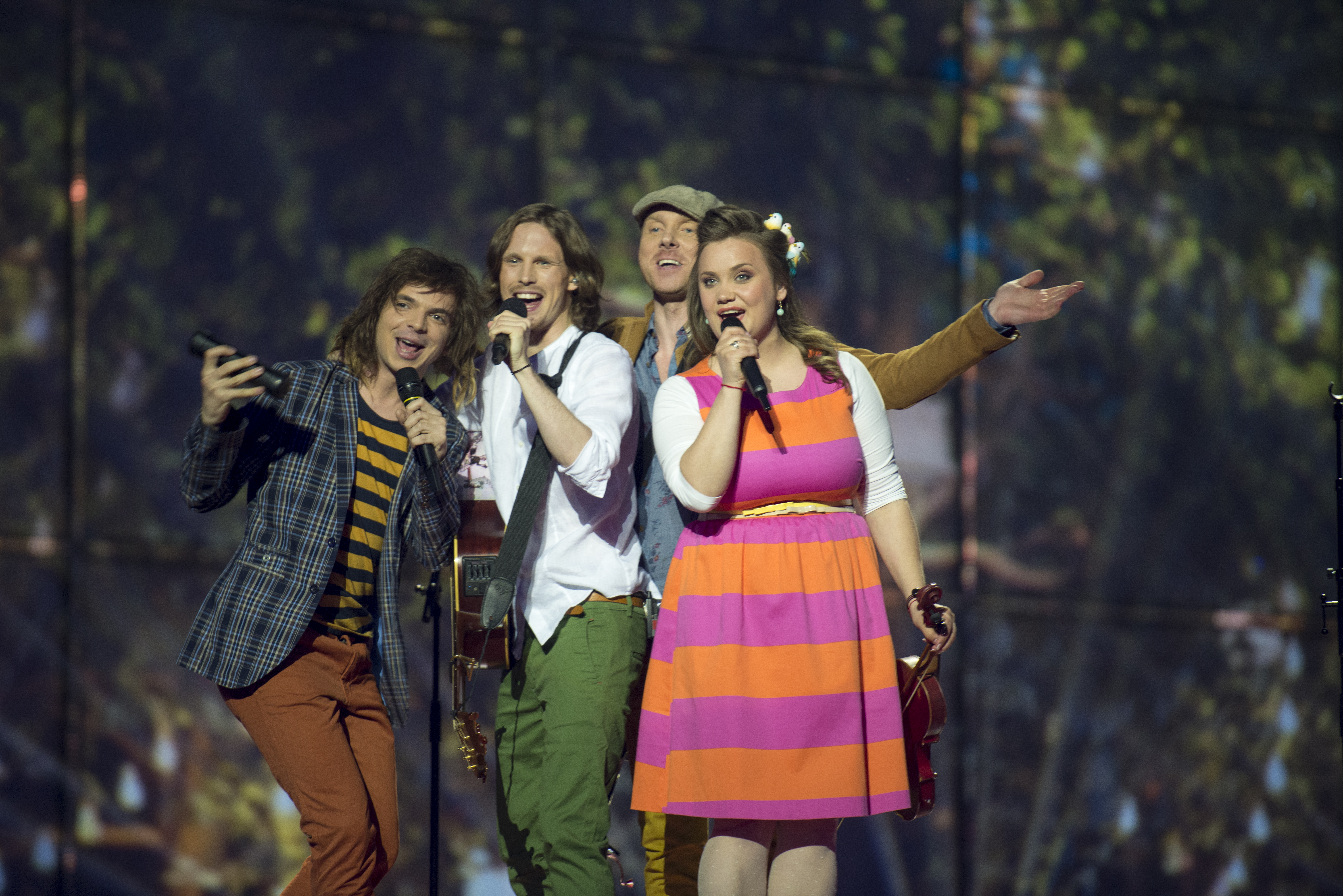 Aarzemnieki representing Latvia with the song "Cake to Bake" during the first dress rehearsal of the first semi final of the Eurovision Song Contest 2014 Copenhagen. (Help translate this text)